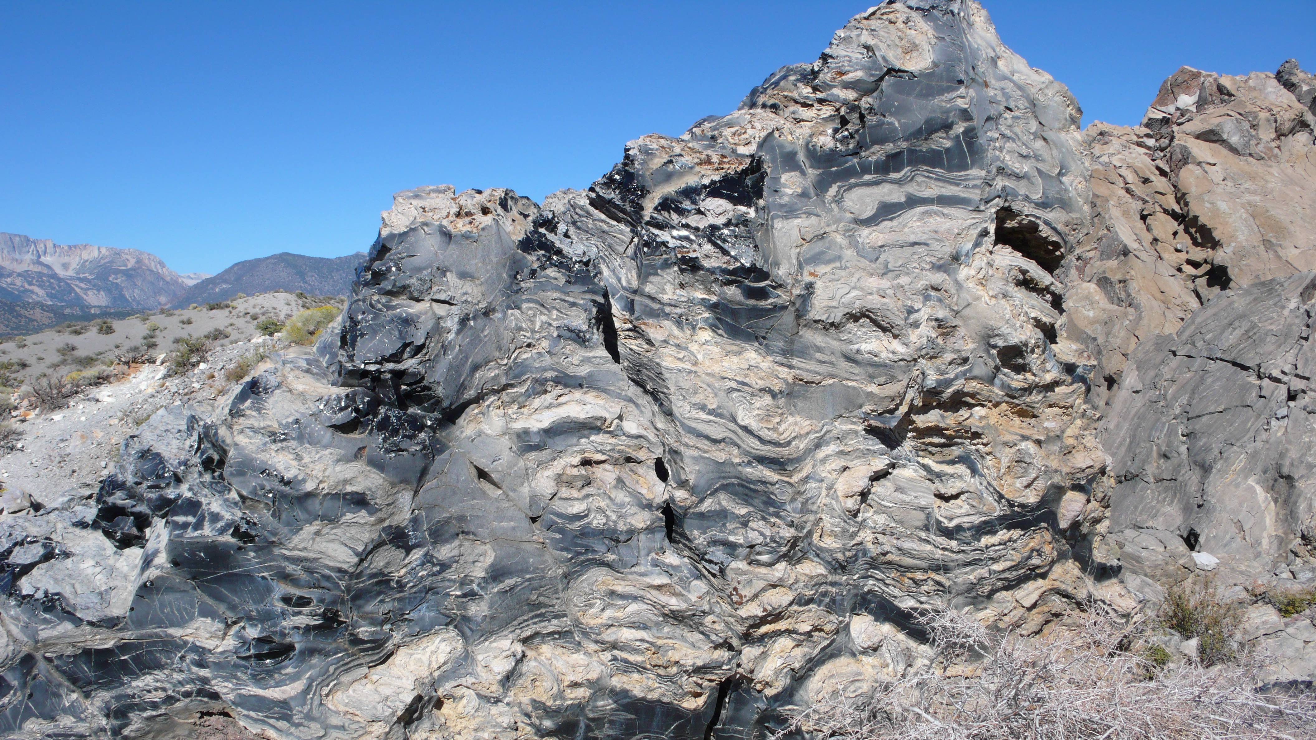 Flow banding of pumice and obsidian, at Panum Crater, Eastern Sierra, California. The pumice and obsidian have the same composition